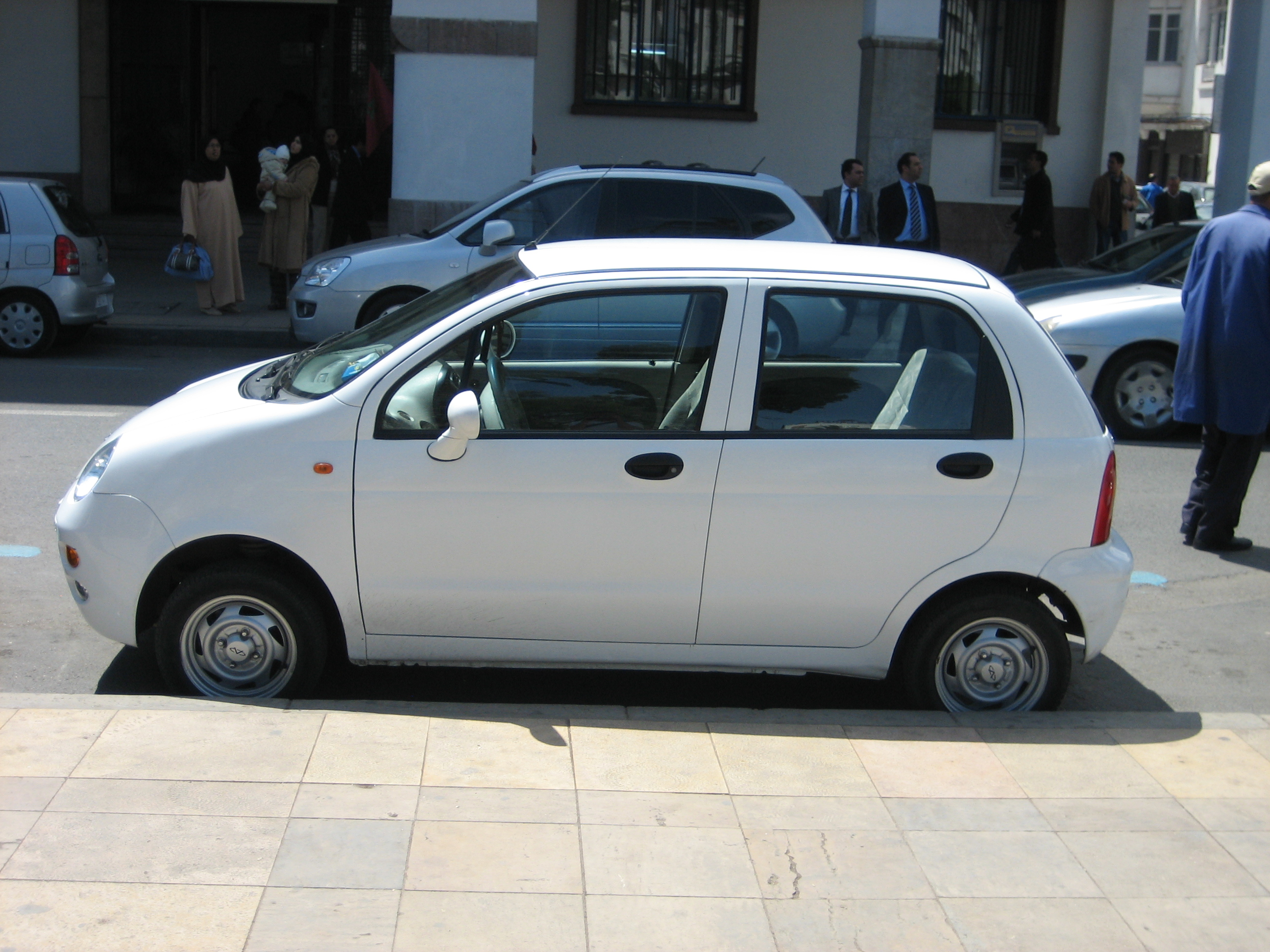 Chery QQ on the street in downtown Rabat, Morocco. Read more about the Chery QQ here.